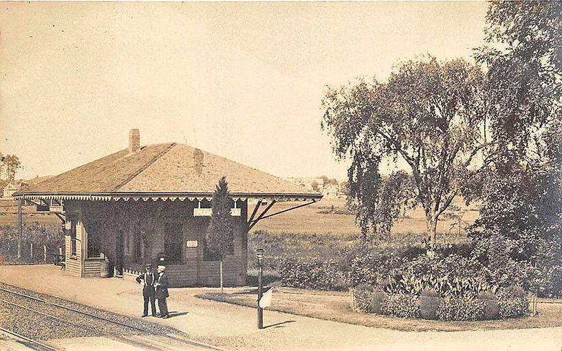 Early divided back postcard of Pleasant Hills station